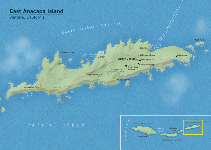 Map of East Anacapa Island — Channel Islands, in Ventura County, California.